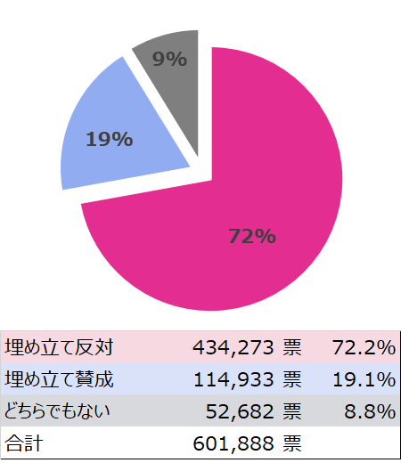 Okinawa Referendum 2018 result